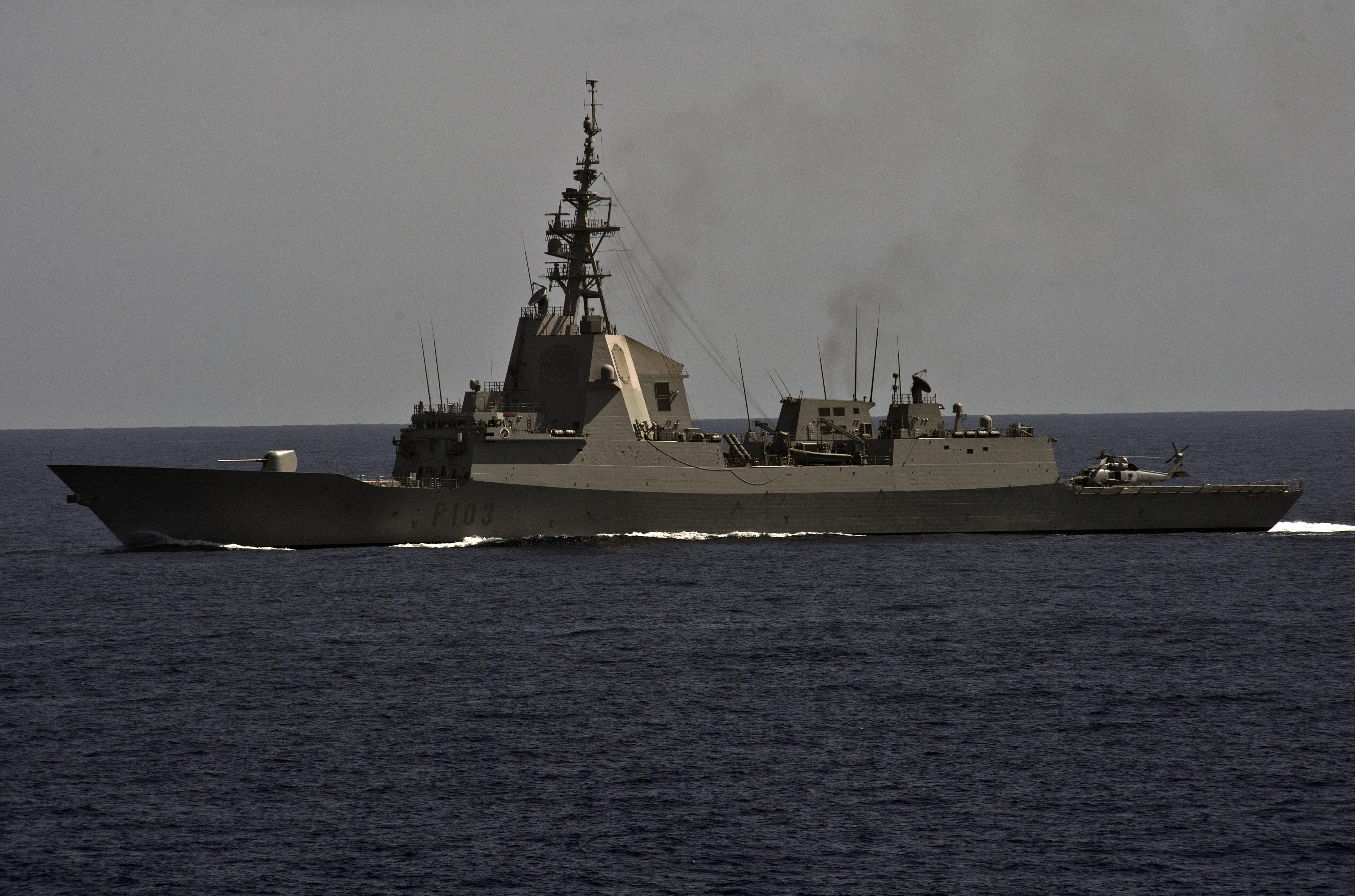 ATLANTIC OCEAN (May 3, 2012) The Spanish navy frigate SPS Blas de Lezo (F103) transits the Atlantic Ocean. Blas de Lezo is taking part in the Carrier Strike Group (CSG) 8 composite training unit exercise (COMPTUEX) in the Atlantic Ocean. (U.S. Navy photo by Mass Communication Specialist 2nd Class William Jamieson/Released) 120503-N-OV802-024 Join the conversation navylive.dodlive.mil